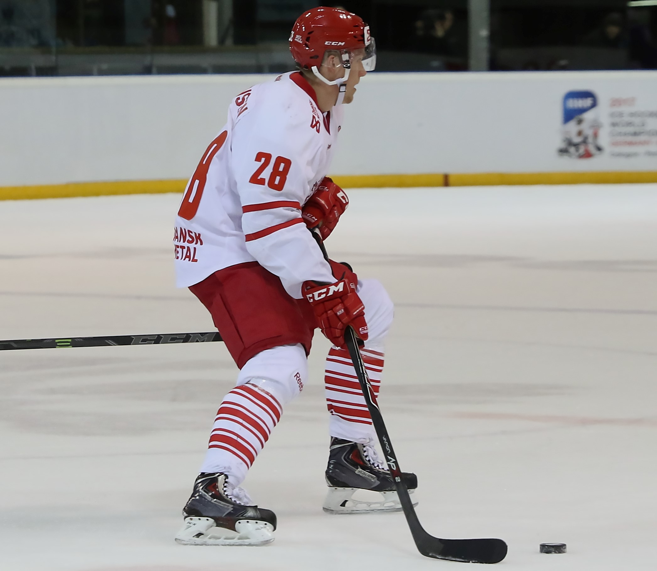 Cropped photo of ice hockey player Emil Kristensen.